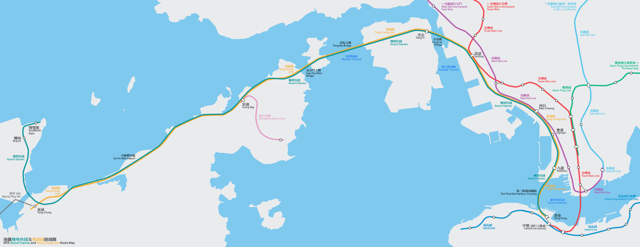 港鐵機場快綫及東涌綫路線圖（按真實地形繪畫） Geographically accurate map of the MTR Airport Express and Tung Chung Line By Bus_28a, Mtrkwt